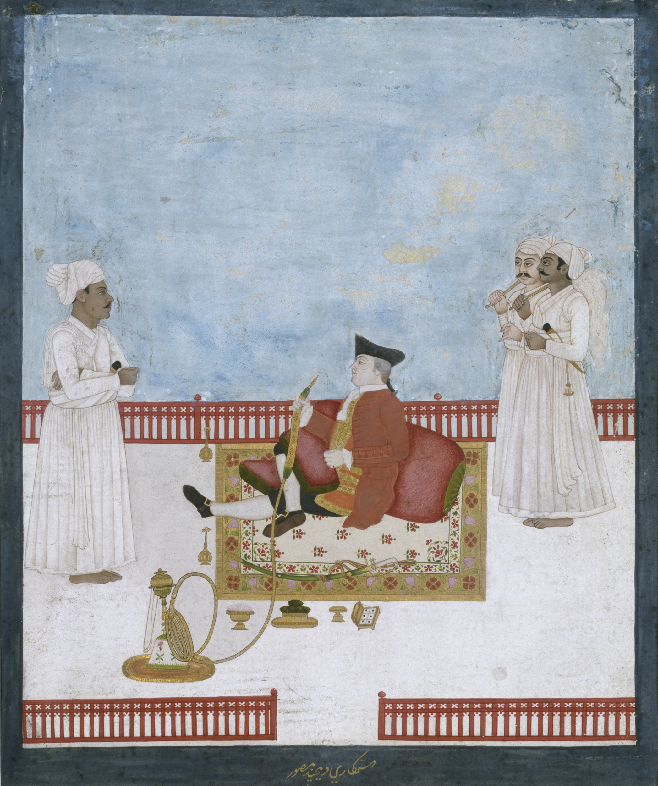 The pictures made by Indian artists for the British in India are called Company paintings. This one probably depicts William Fullerton of Rosemount, who joined the East India Company's service in 1744 and was second surgeon in Calcutta in 1751. He was present at the siege of Calcutta in 1756 and became mayor of Calcutta in 1757. In 1763 Fullerton became a surgeon to the Patna Agency. He was the only Englishman to survive the massacre of the English during the war with Mir Kasim of Murshidabad. An excellent linguist, he clearly mixed with Indians more than was common and had one or more Indian bibis (mistresses).